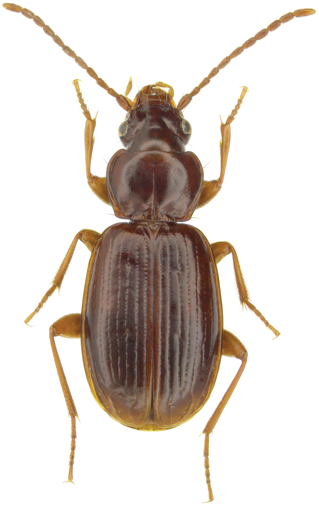 Trechus apicalis Motschulsky. This trechine species is “wing dimorphic” with the vast majority of individuals being micropterous (with short wing vestiges) and a few macropterous (with long wings). Usually macropterous individuals of dimorphic species are able to fly but this is not always the case as flight muscles could be atrophied. Carl Lindroth argued that in stable periods, when the species’ habitat is not subject to drastic changes, the brachypterous form normally predominates but in unstable periods, the situation is reversed.